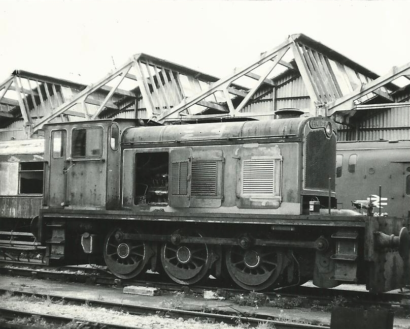 Hudswell Clarke D810 What appears to be a standard Hudswell Clarke 0-6-0 diesel mechanical shunter is in fact a unique and highly unusual prototype demonstrator, NºD810 built in 1958, Enterprise. Though the bodywork is standard, the engine is anything but; it was a normally-aspirated Paxman 6RPH fitted with a Brown Boveri turbocharger and extensively modified to work on Paxman's "Hi-Dyne" system intended to produce maximum power output and torque at low speed - which was more achievable with expensive hydraulic or electric transmission rather than cheaper mechanical transmissions. The transmission fitted to D810 was an experimental "Fluidrive" mechanical transmission. Unfortunately, the modifications resulted in a reduction in power of the standard normally aspirated engine from 275 hp to 210 hp, which negated many of the advantages of the Hi-Dyne principle. The loco worked at various collieries and steel works. The only orders which followed was for 24 2'6" gauge 2-8-2 mixed traffic locomotives (even though the Hi-Dyne principle was specifically designed for shunters!) for the Sierra Leone Government Railways built in 1957-61. The locomotives proved highly unreliable despite many modifications and the Hi-Dyne principle was shown to be a failure. D810 is pictured in "as withdrawn" condition, at the Ashford Steam Centre, 10/1972, the last time it's existence is recorded. UPDATE - the loco was scrapped in Booth's scrapyard, Rotherham in early 1992. But what was it doing and where in the intervening 20 years? Scanned photograph taken with a Kowa SET. Also behind the loco is the Bulleid 4DD| double decker EMU.